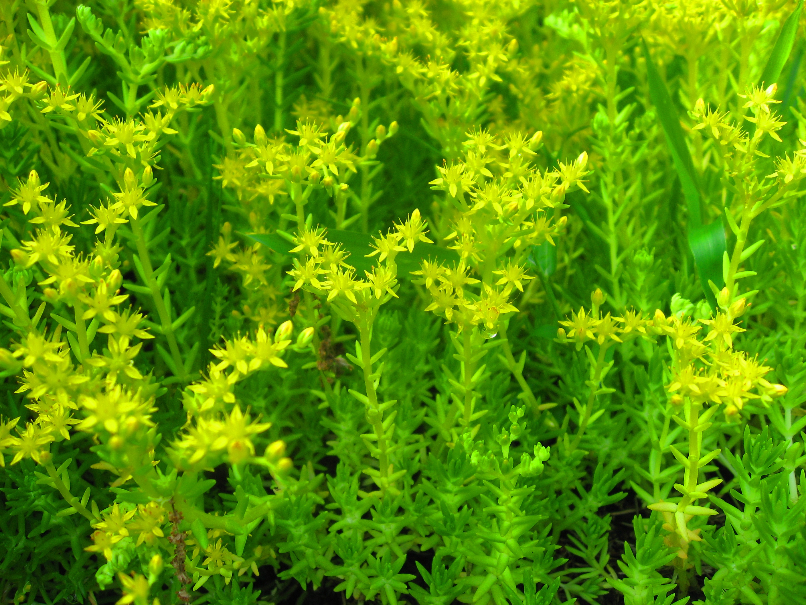 Sedum mexicanum, Musashi Kyuryou National Government Park, Saitama pref., Japan